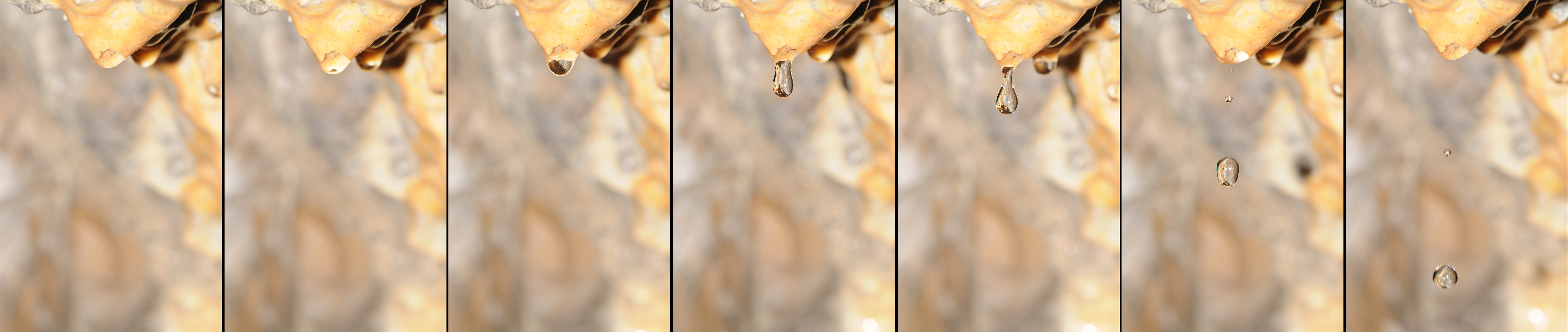 Time-lapse Photography showing the formation of a water drop on the tip of a stalactite in the Fort du Salbert. Picture taken in Territoire de Belfort, France.